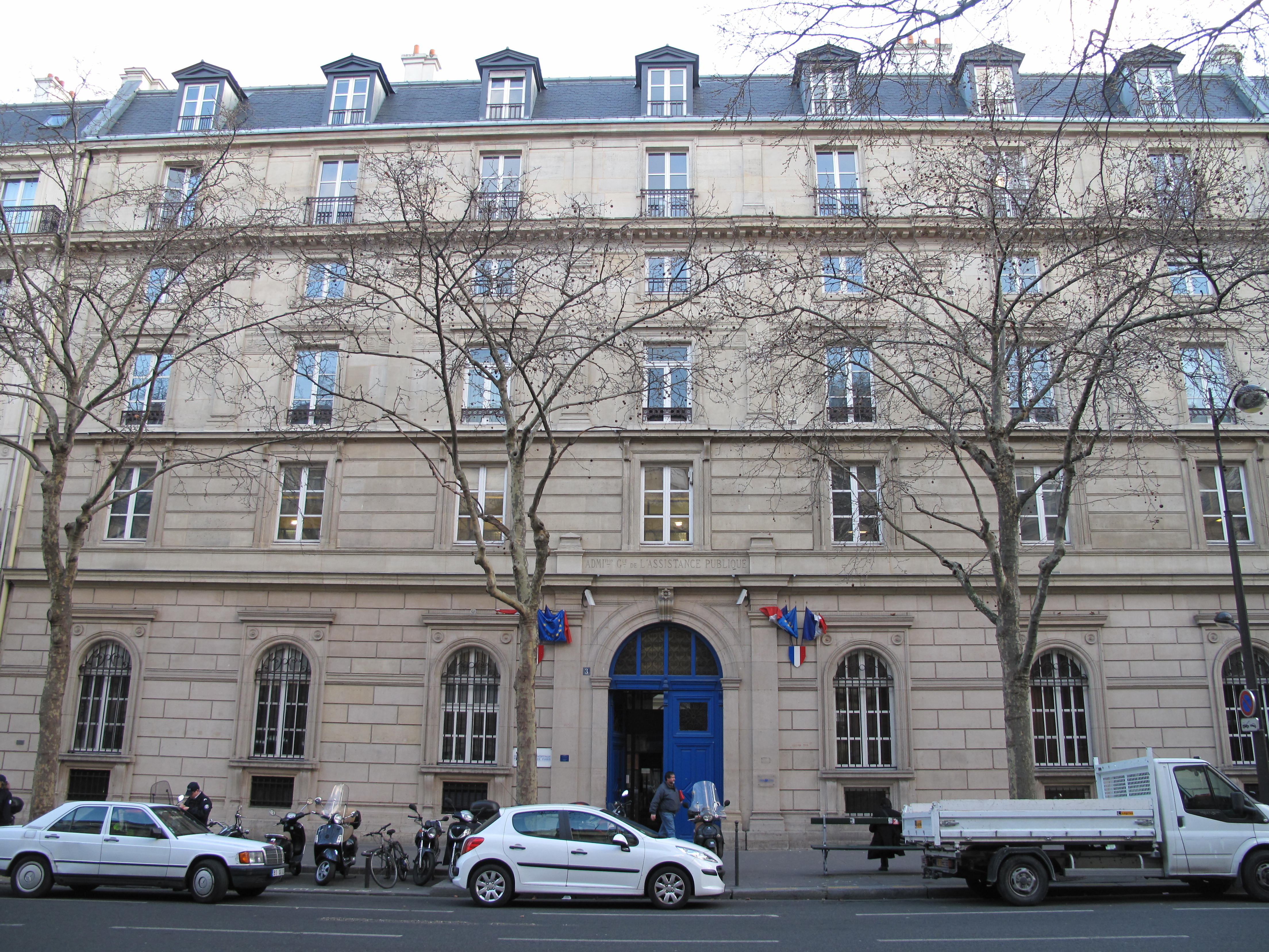 Building of the 3 avenue Victoria, Paris 4th arr. Headquarters of Assistance publique - Hôpitaux de Paris.